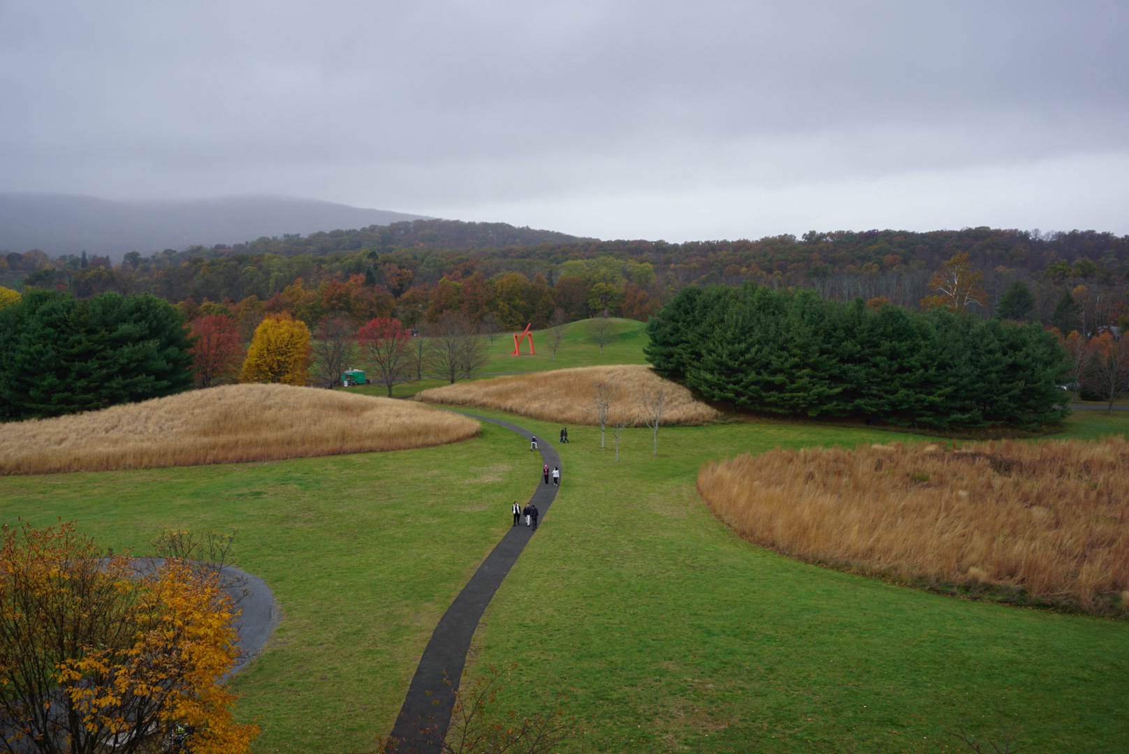 One of 11 uploads of different parts of Storm King Art Center, entirely in my ownership as not focusing on the copyrighted works of art.